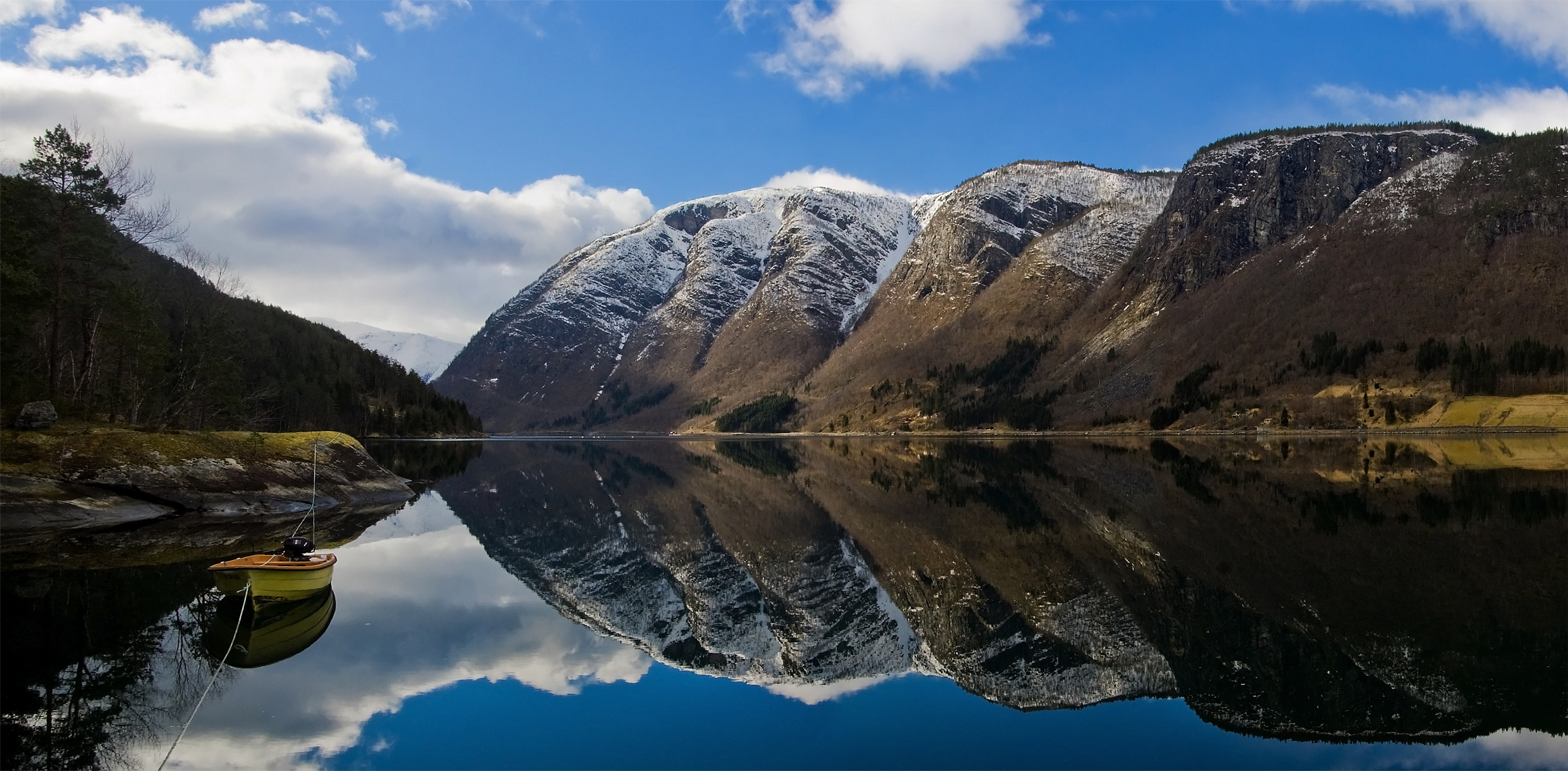 Panorama of the mountains along the Ulvikfjord, a side arm of the Hardangerfjord in Western Norway.